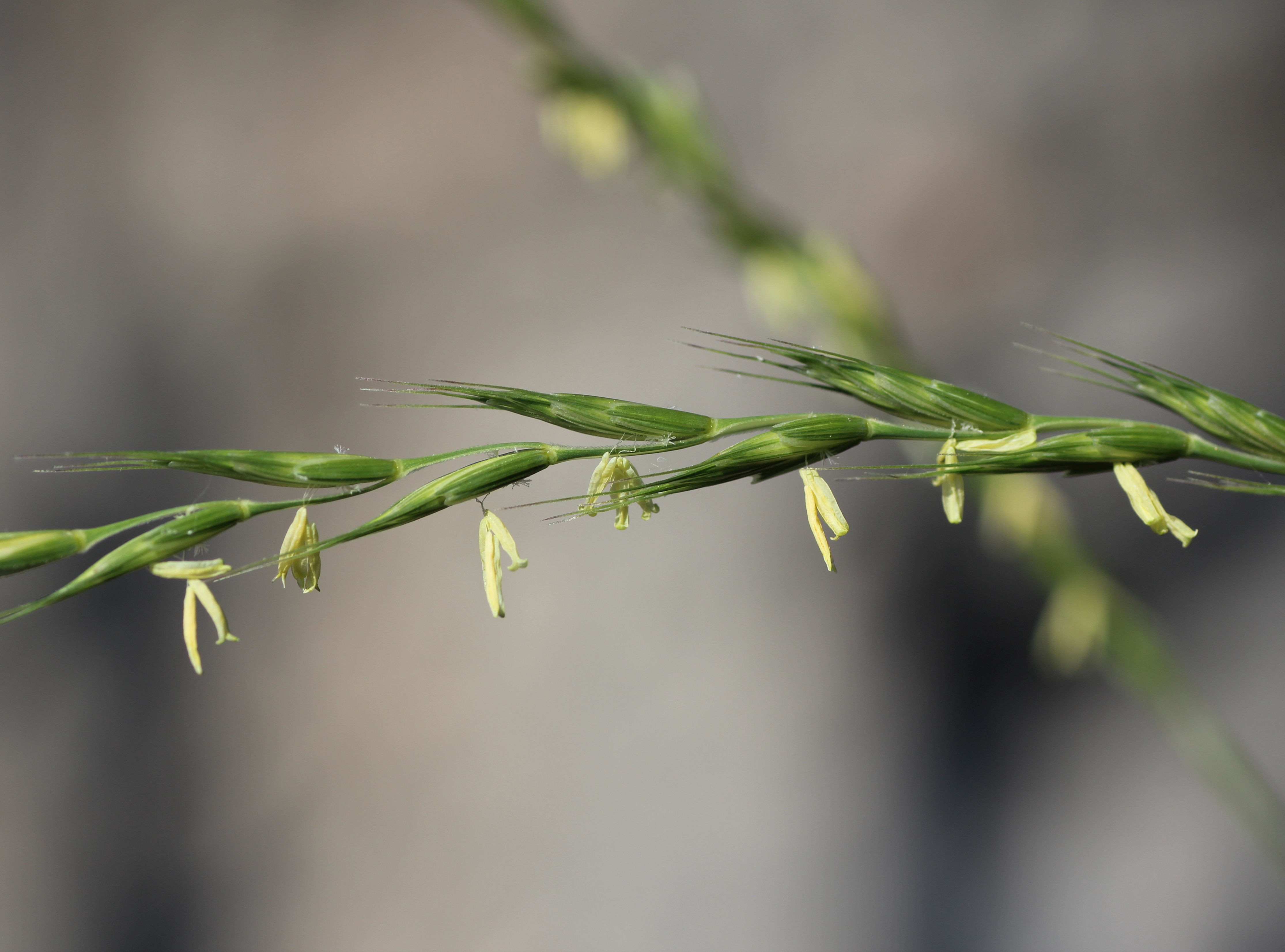 Elymus caninus